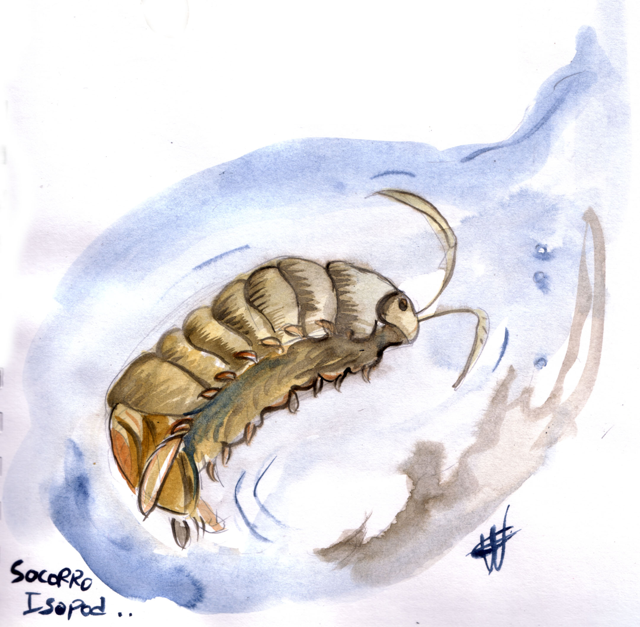 Artist rendering of Thermosphaeroma thermophilum (Socorro isopod or Socorro sowbug)